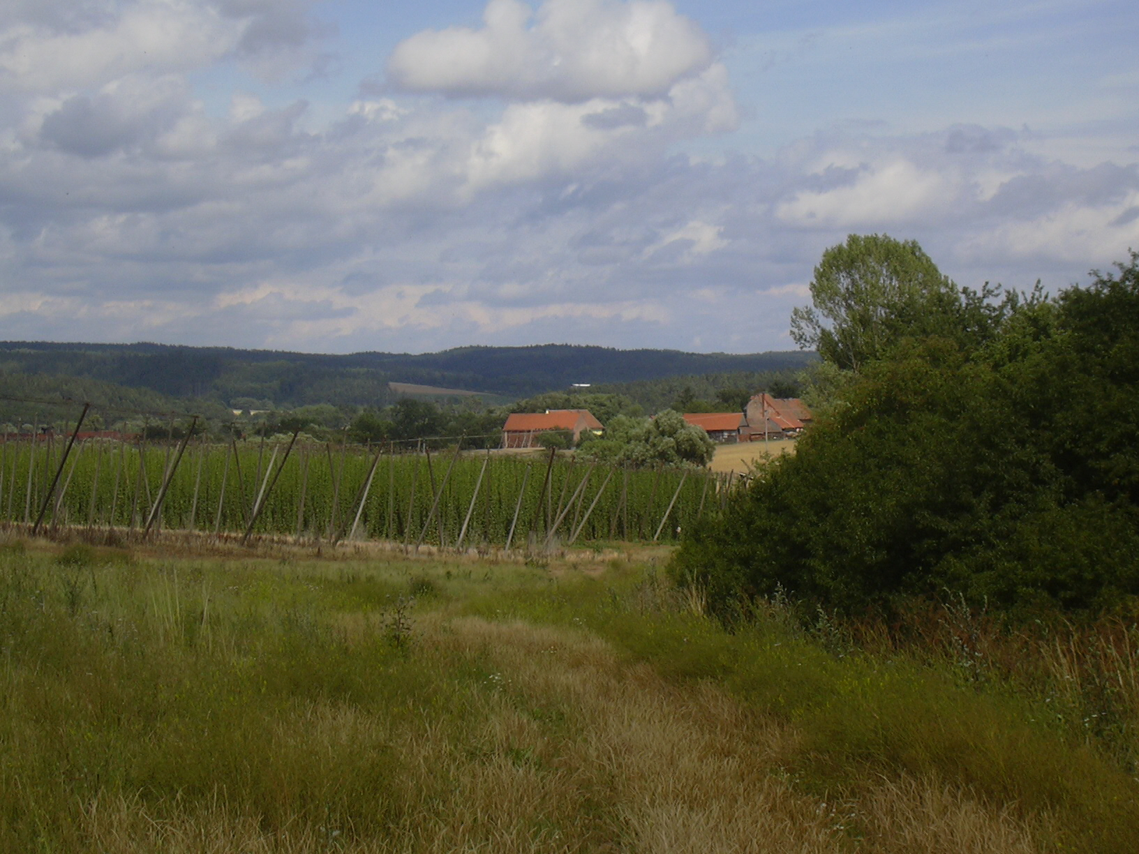 Malá Černoc, a small village in the Czech Republic surrounded by hop gardens]